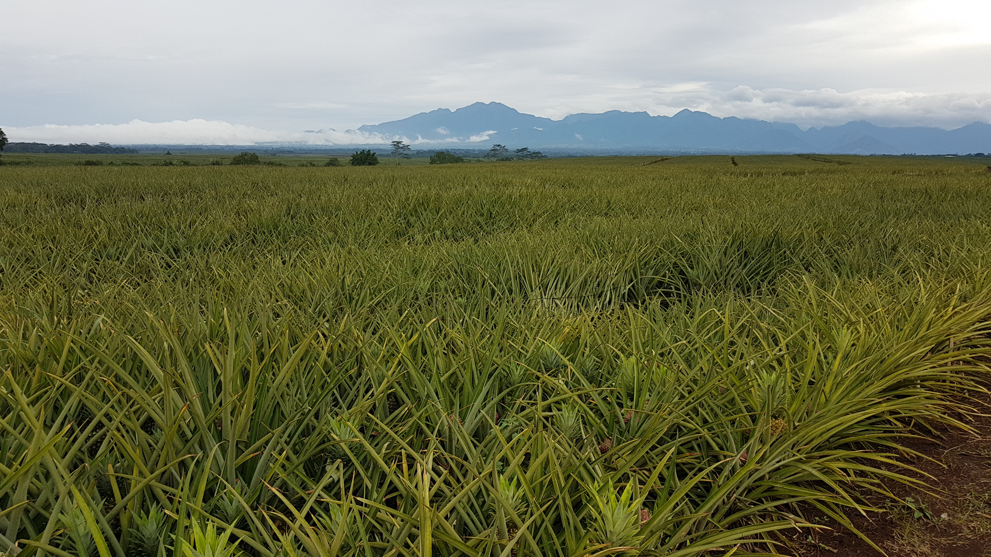 Del Monte Pineapple field at Camp Philips, Bukidnon, Philippines